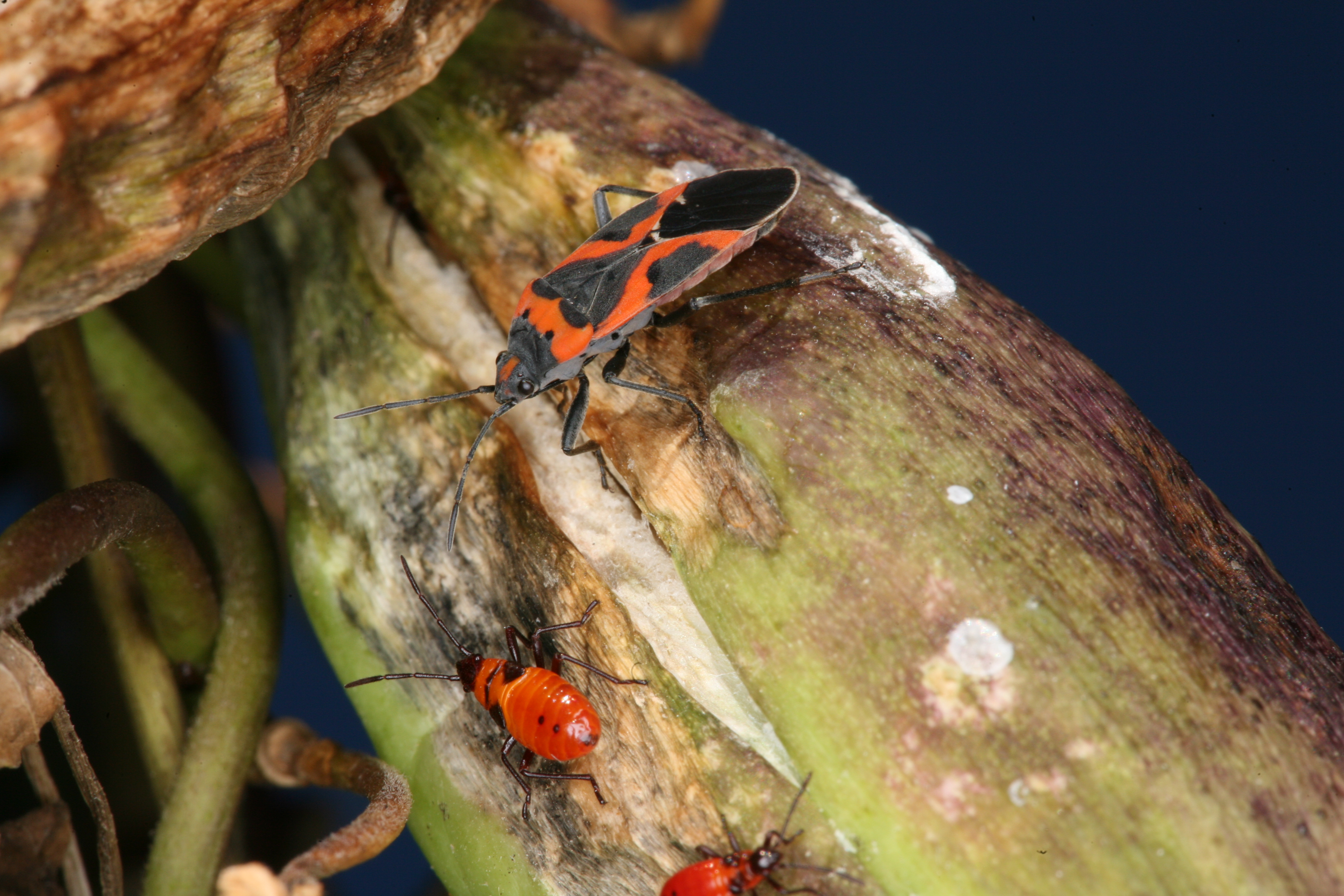 Small Milkweed bug, nymph (bottom) and mature (top) Lygaeus kalmii, Urbana, Illinois, USA